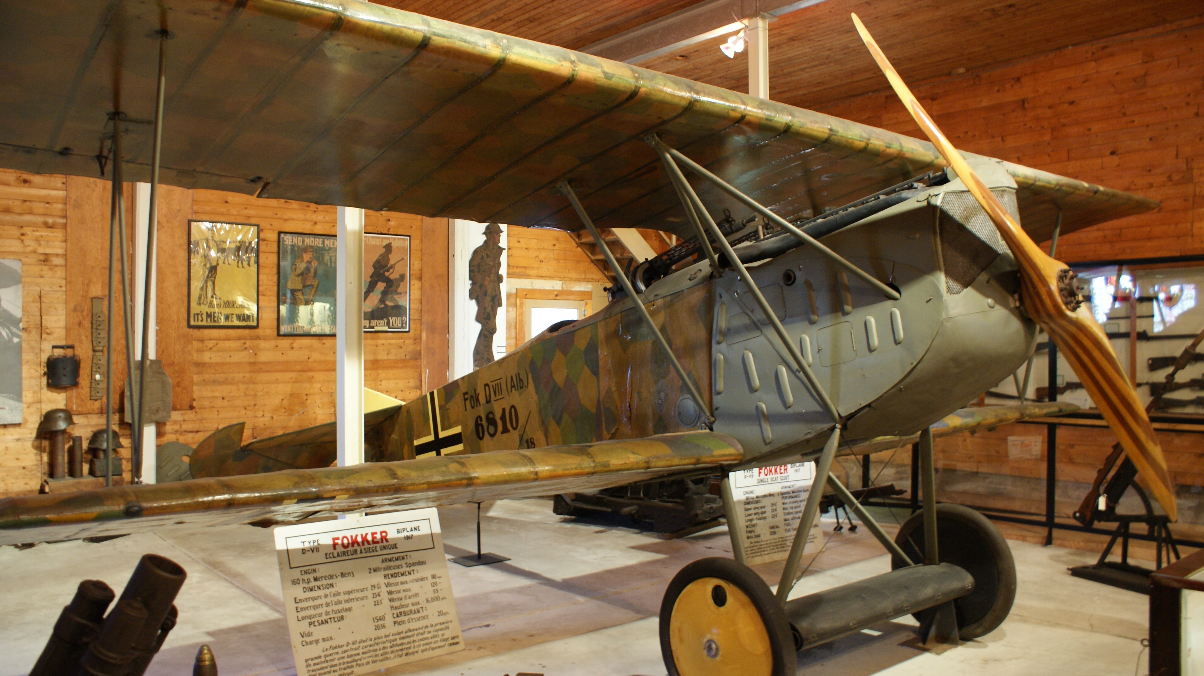 Fokker DVII World War I bi-plane exhibited in Knowlton, Quebec